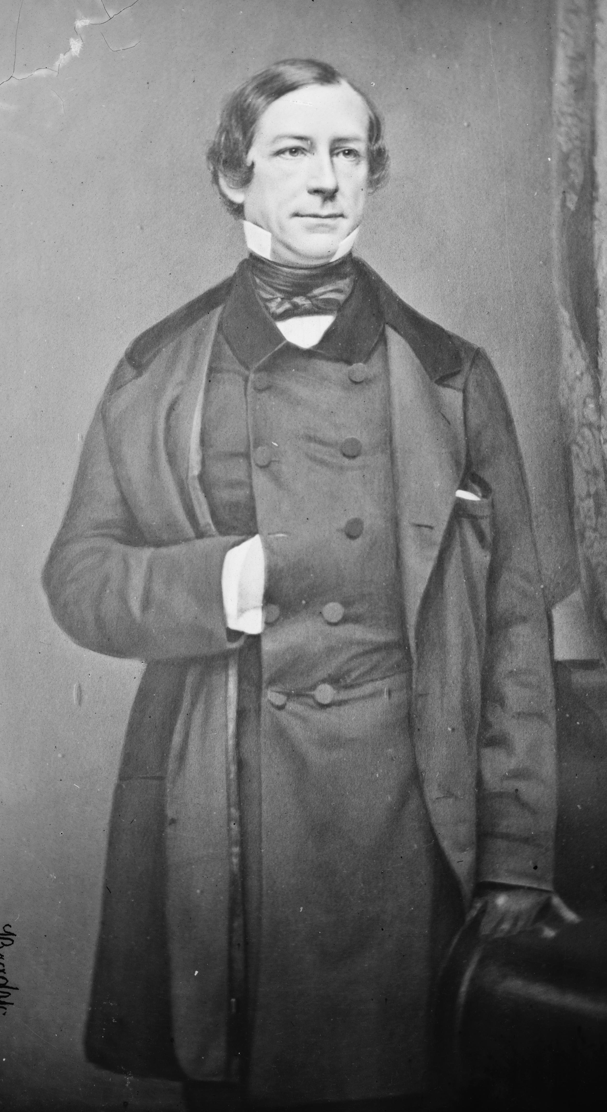 Fernando Wood. Library of Congress description: "Hon. Fernando Wood of N.Y and Mayor of N.Y."